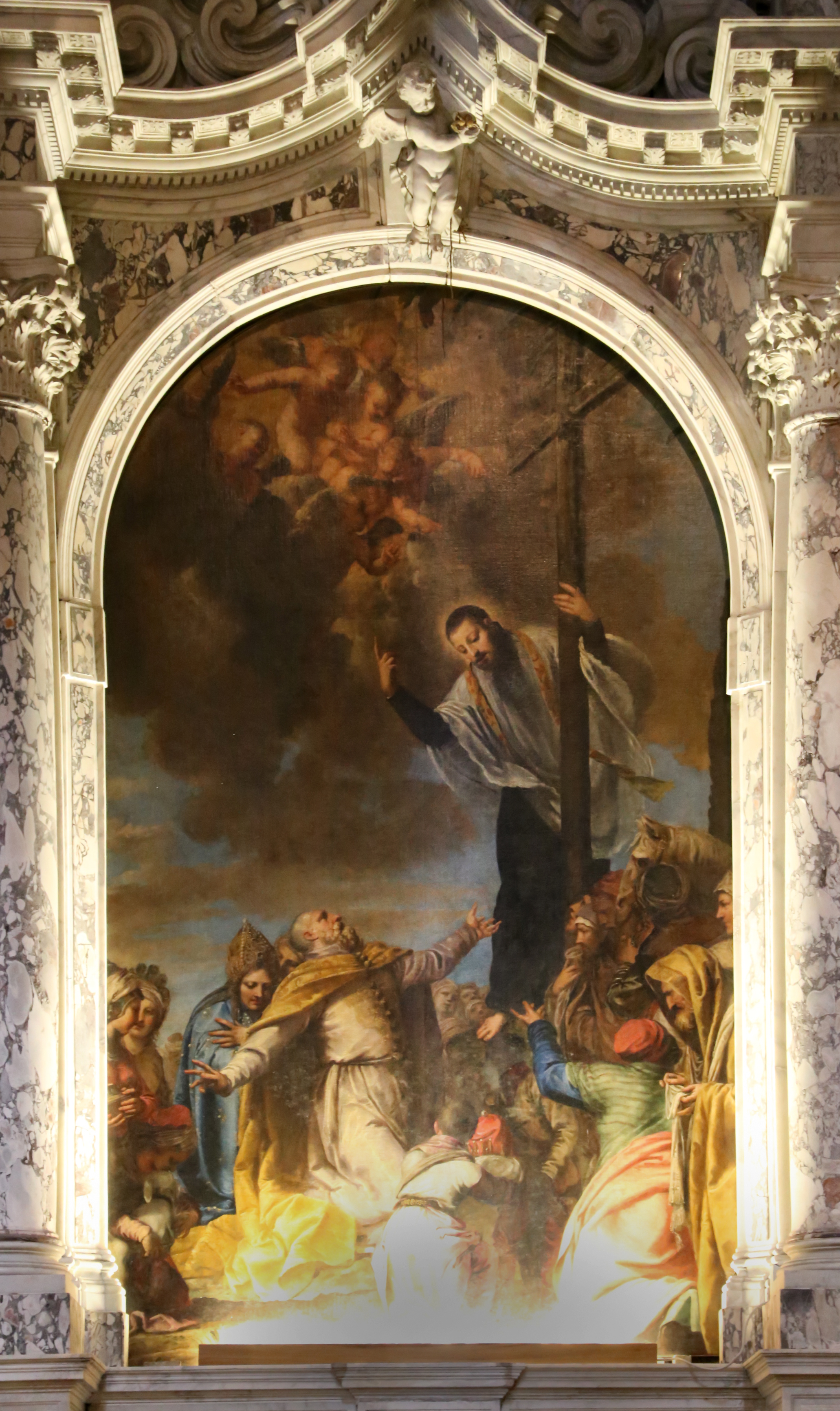 Interior of Chiesa dei Gesuiti (Venice)